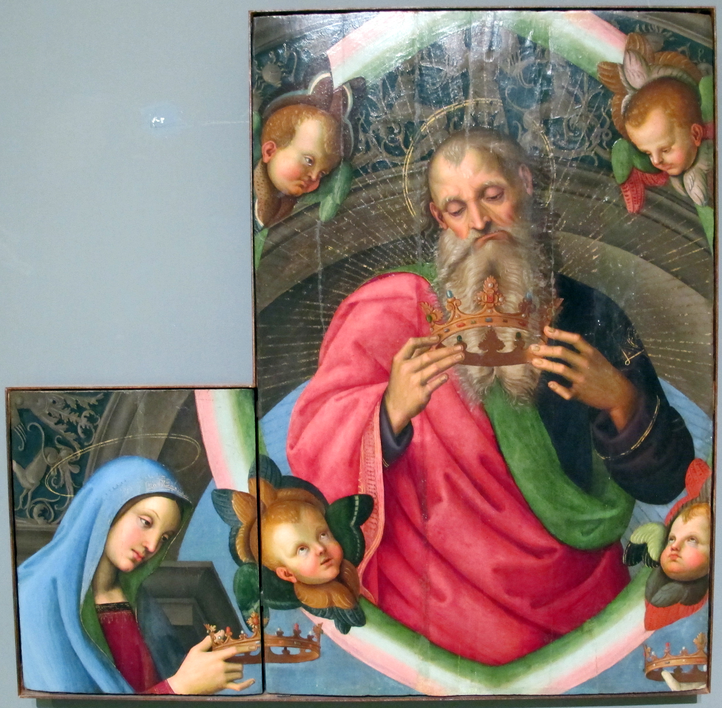 fragments of the Baronci Altarpiece